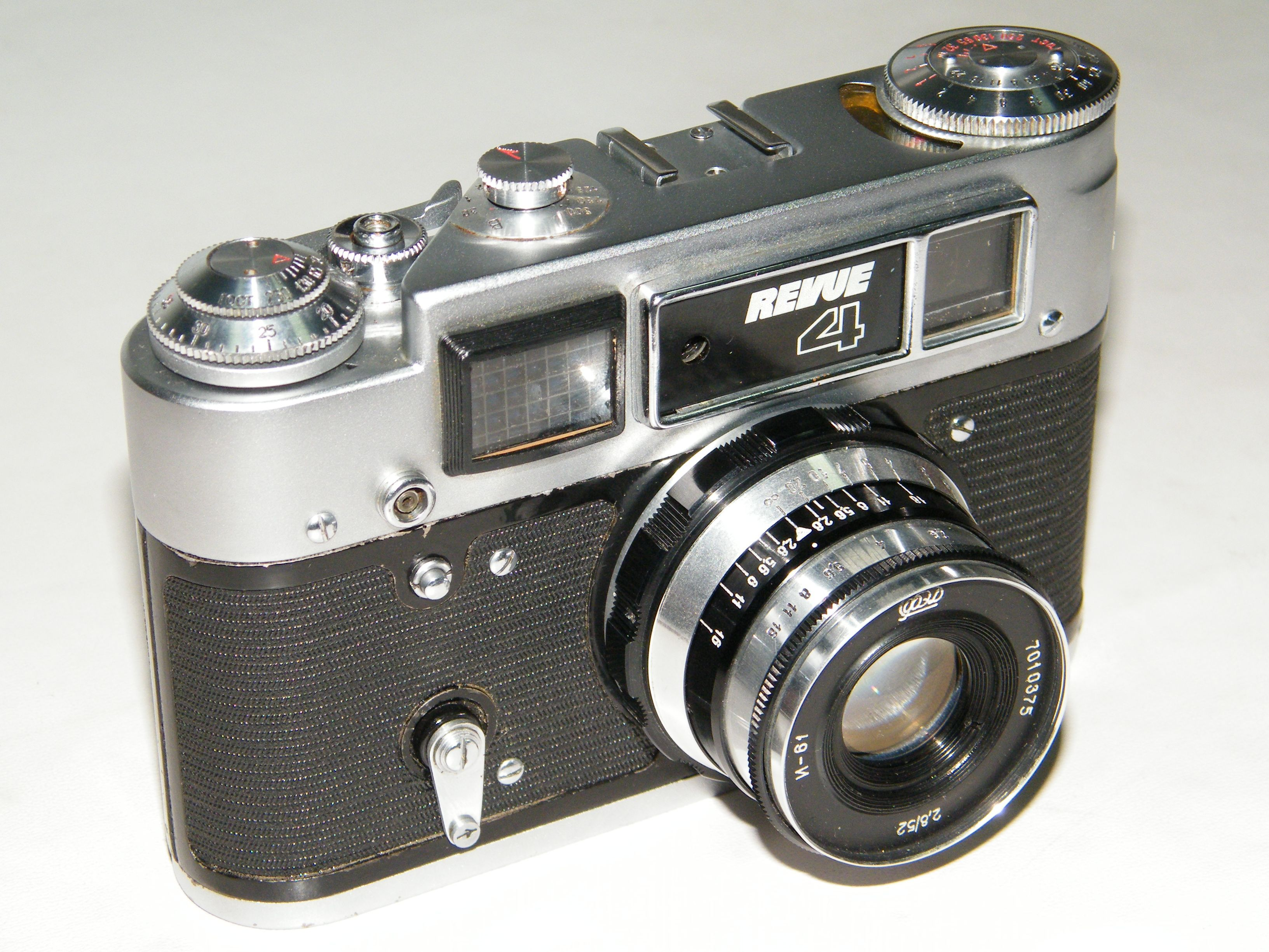 "Revue-4", "ФЭД-4" , экспортный вариант